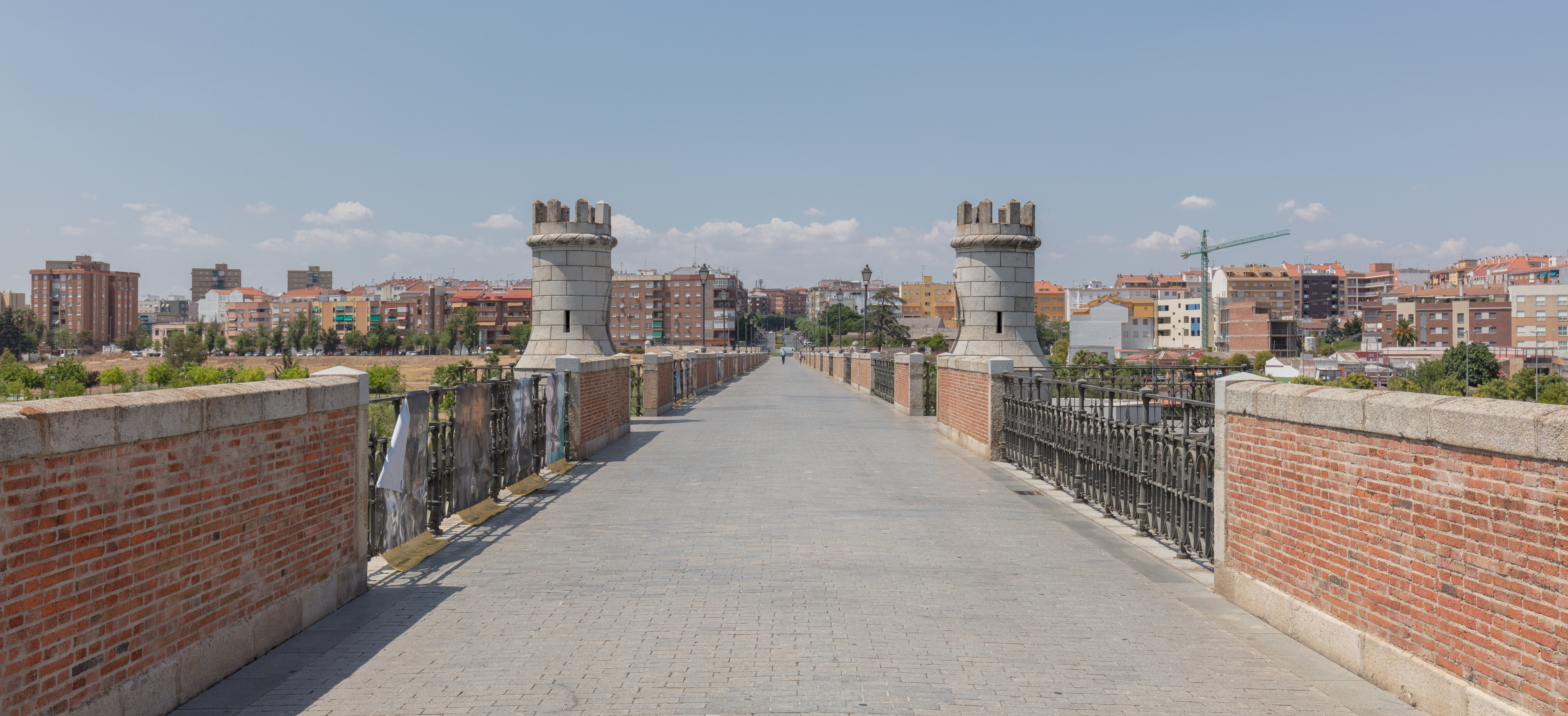 Palmas Bridge, Badajoz, Spain